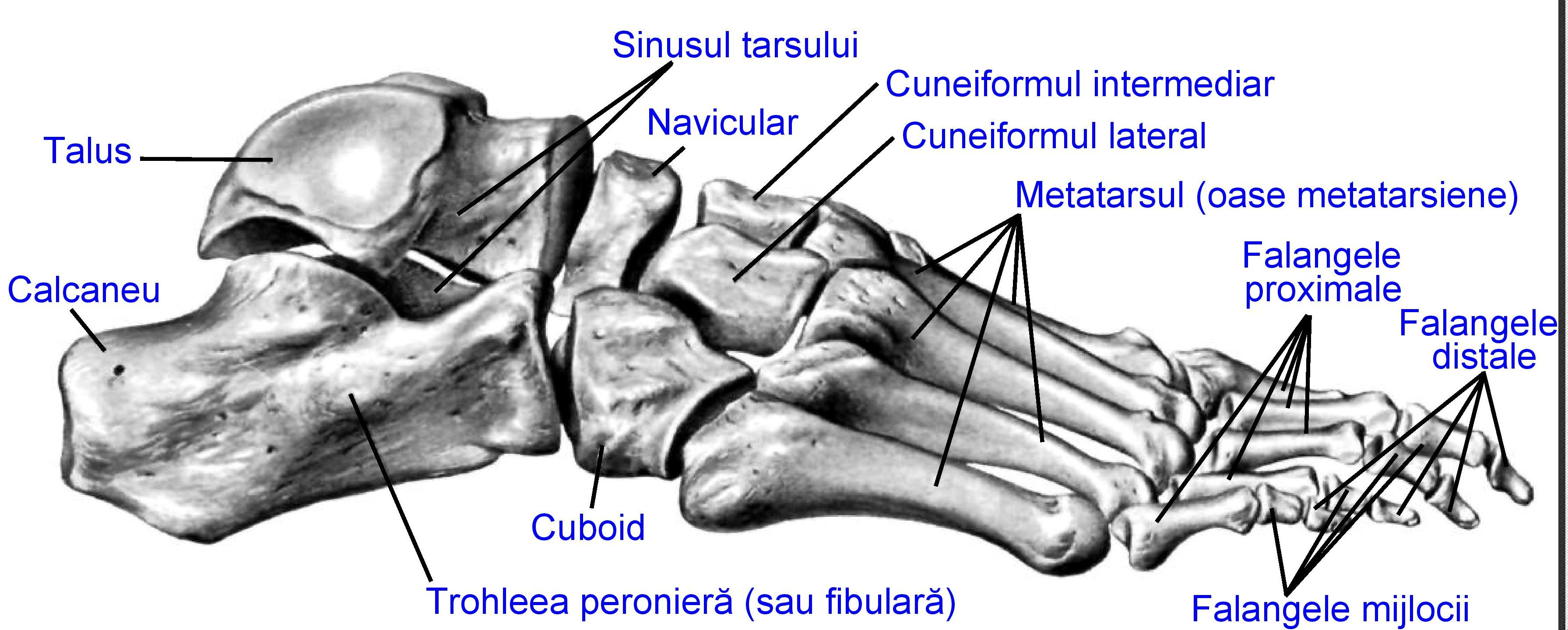 Tars, lateral